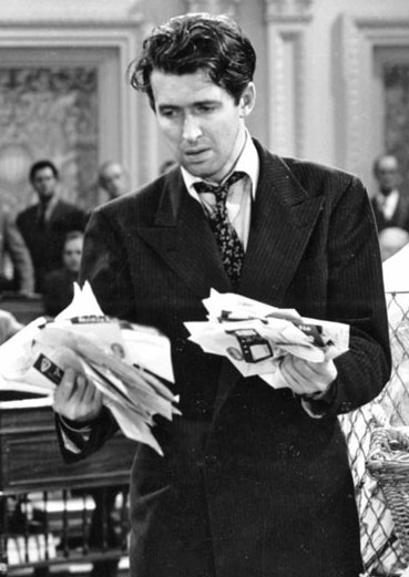 Promotional still from the 1939 film Mr. Smith Goes to Washington, published in National Board of Review Magazine